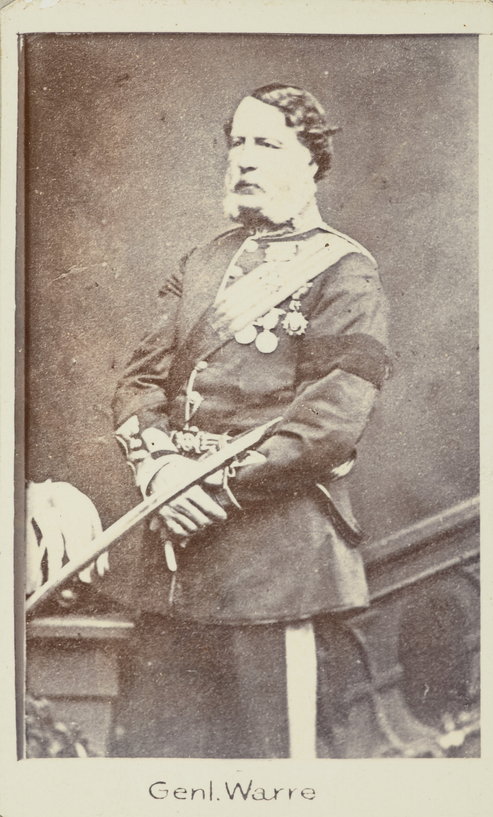 General Warre about 1860